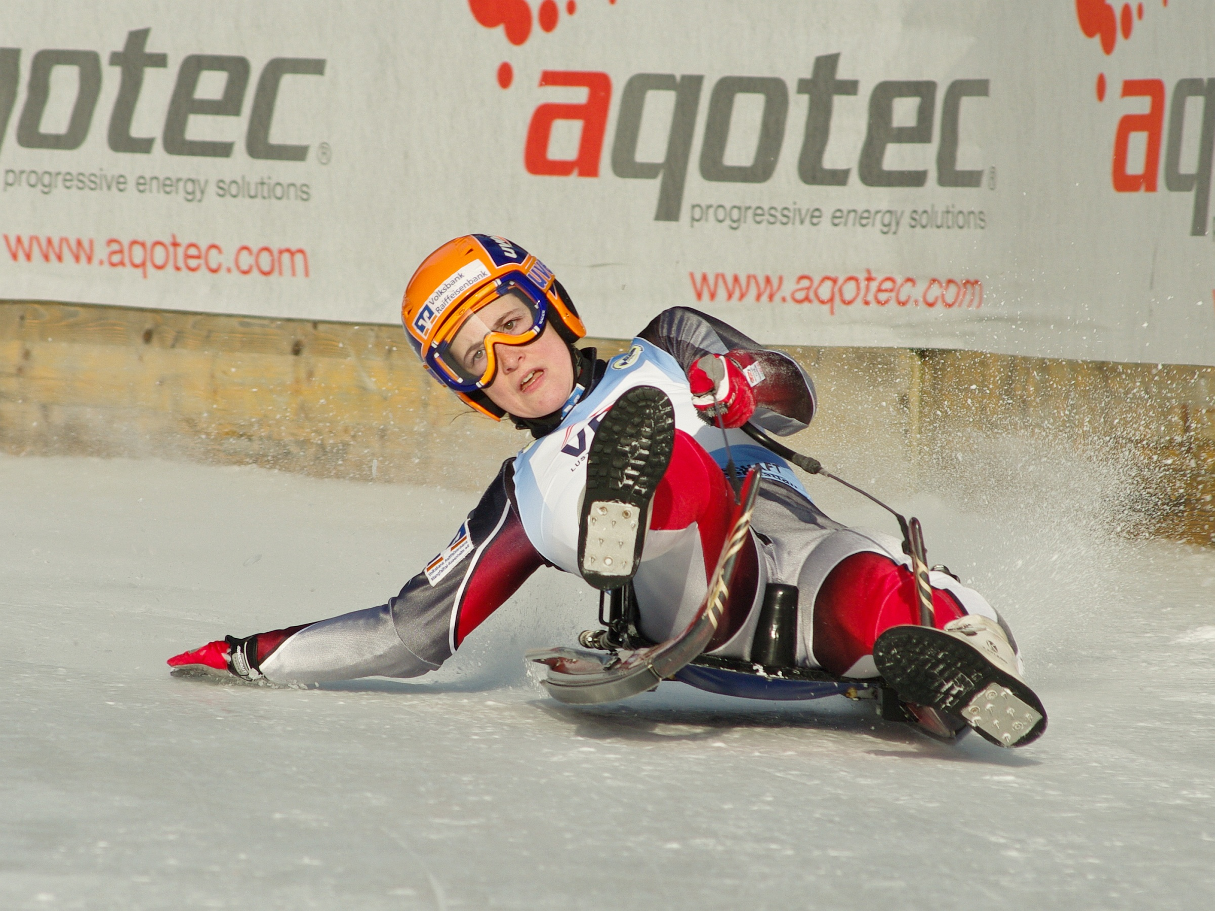 German natural track luger Michaela Maurer at the FIL European Luge Natural Track Championships 2010 in St. Sebastian, Austria.